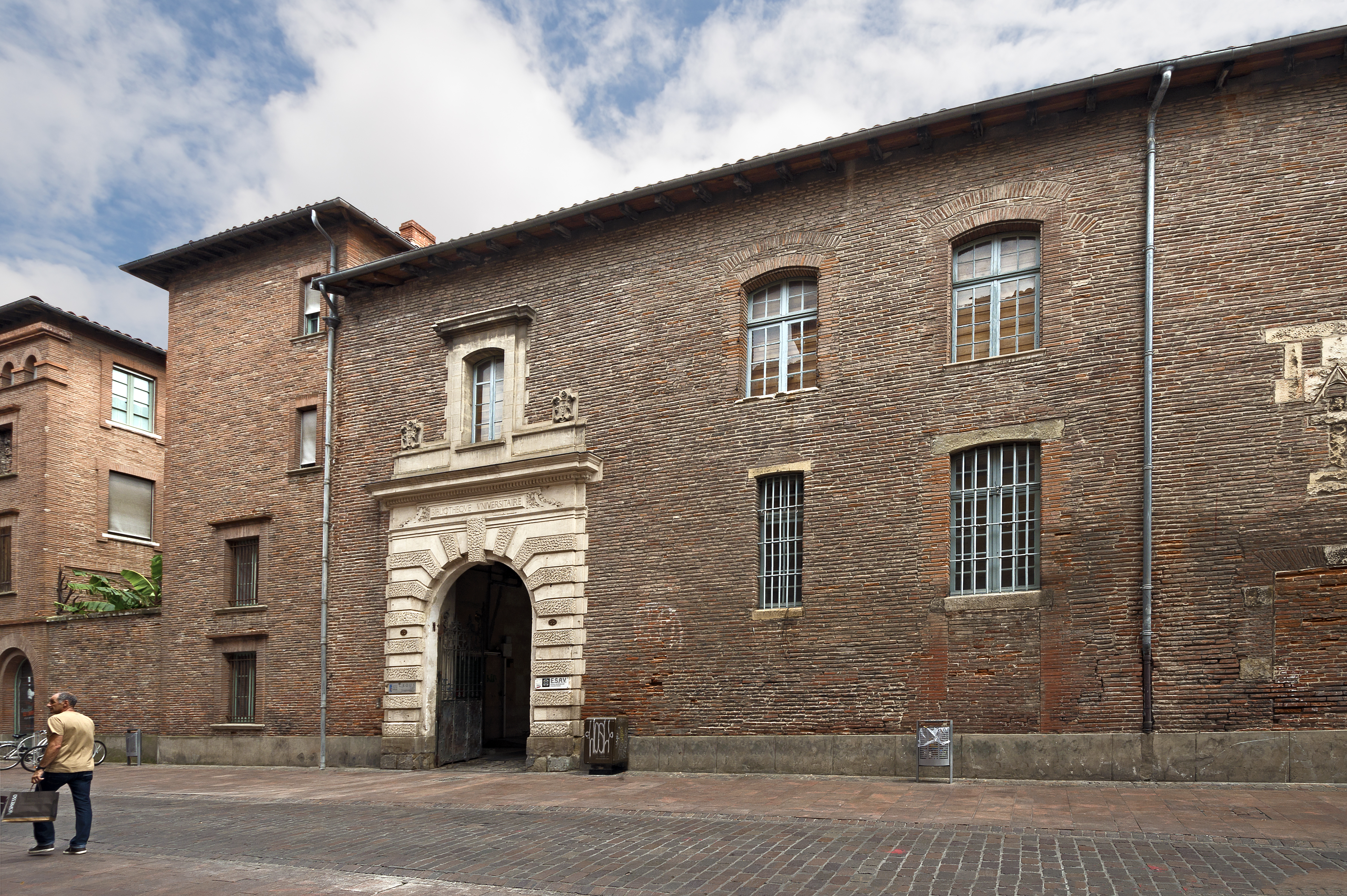 Former seminary (1622; 1642) architect : Didier Sansonnet. Currently ESAV (Graduate School of audiovisual) - facade on Rue du Taur in the historic center of Toulouse.